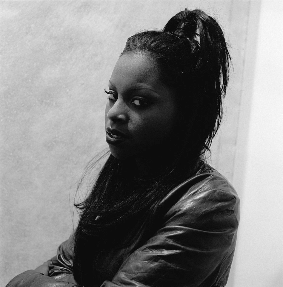 rapper Foxy Brown in New York